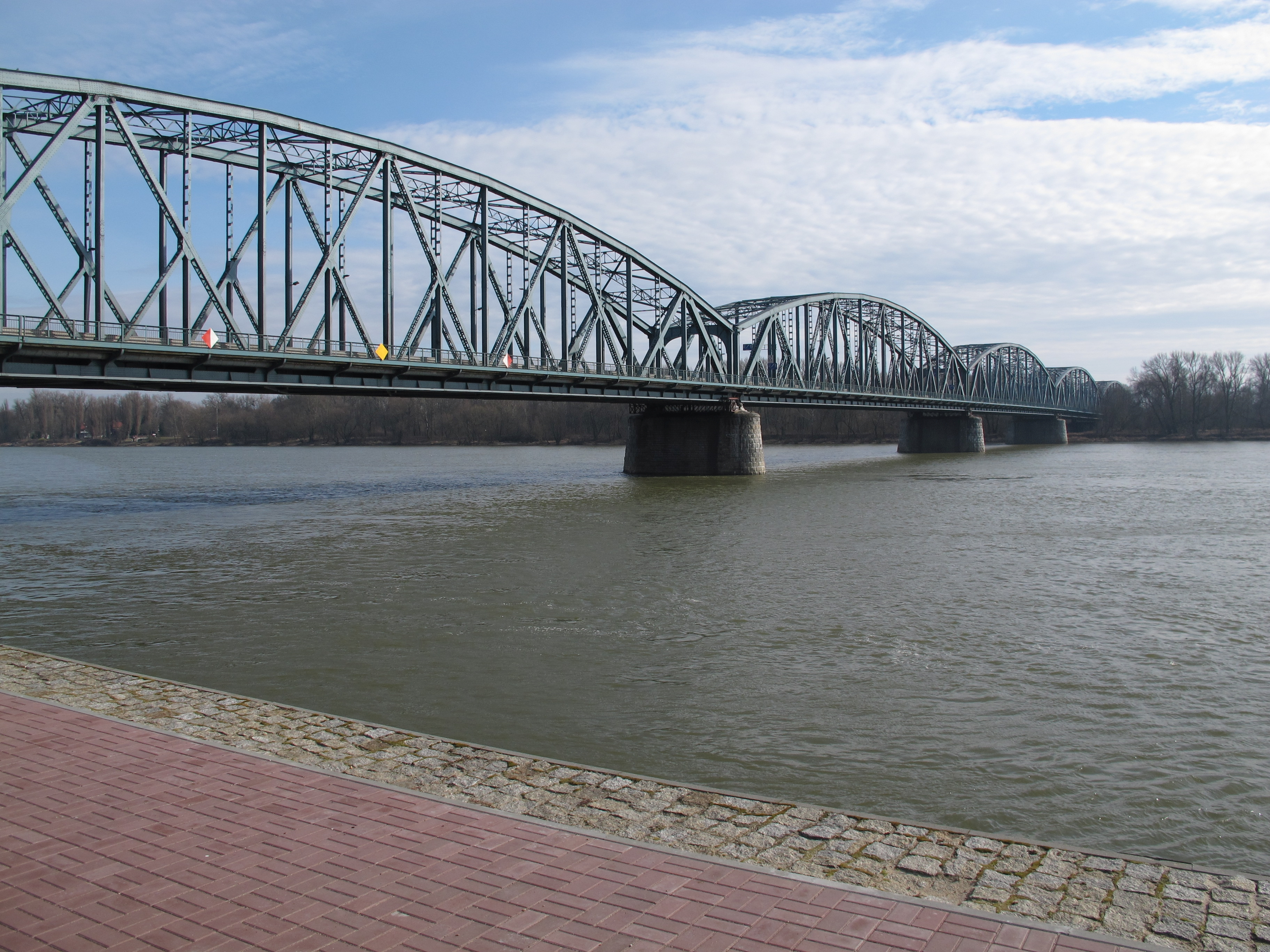 Toruń - Józef Piłsudski Bridge